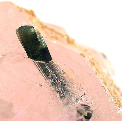 Beryl Locality: Pederneira claim, São José da Safira, Doce valley, Minas Gerais, Southeast Region, Brazil (Locality at ) Size: small cabinet, 8.9 x 6.2 x 3.5 cm Morganite with Tourmaline This translucent to transparent crystal of morganite is from a final held-back portion of the collection of Peter Bancroft, world renowned mineralogical author. This morganite is rich pink, very lustrous and is highlighted by two deep green, elbaite crystals, to 2.0 cm in length, the terminations of which are exposed, while the bottom portions are impaled into the morganite. In addition, there is a band of drusy, tan lepidolite crystals that wreathe the right side of the morganite. The back side has been contacted and there are a few minor dings on the periphera but these do not affect the quality of this specimen. The display face shows complete, as you can see; and is quite impressive as this is almost a cabinet specimen. The color, in person, is a very dramatic, showy, classic morganite-pink. His is only the second such morganite I have ever seen for sale with tourmalines impaled within, from this part of Brazil. Usually they form in quite distinct sections of a mine, and the combos that are famous are from the Urucum mine and quite different in aspect from this specimen. RARE!